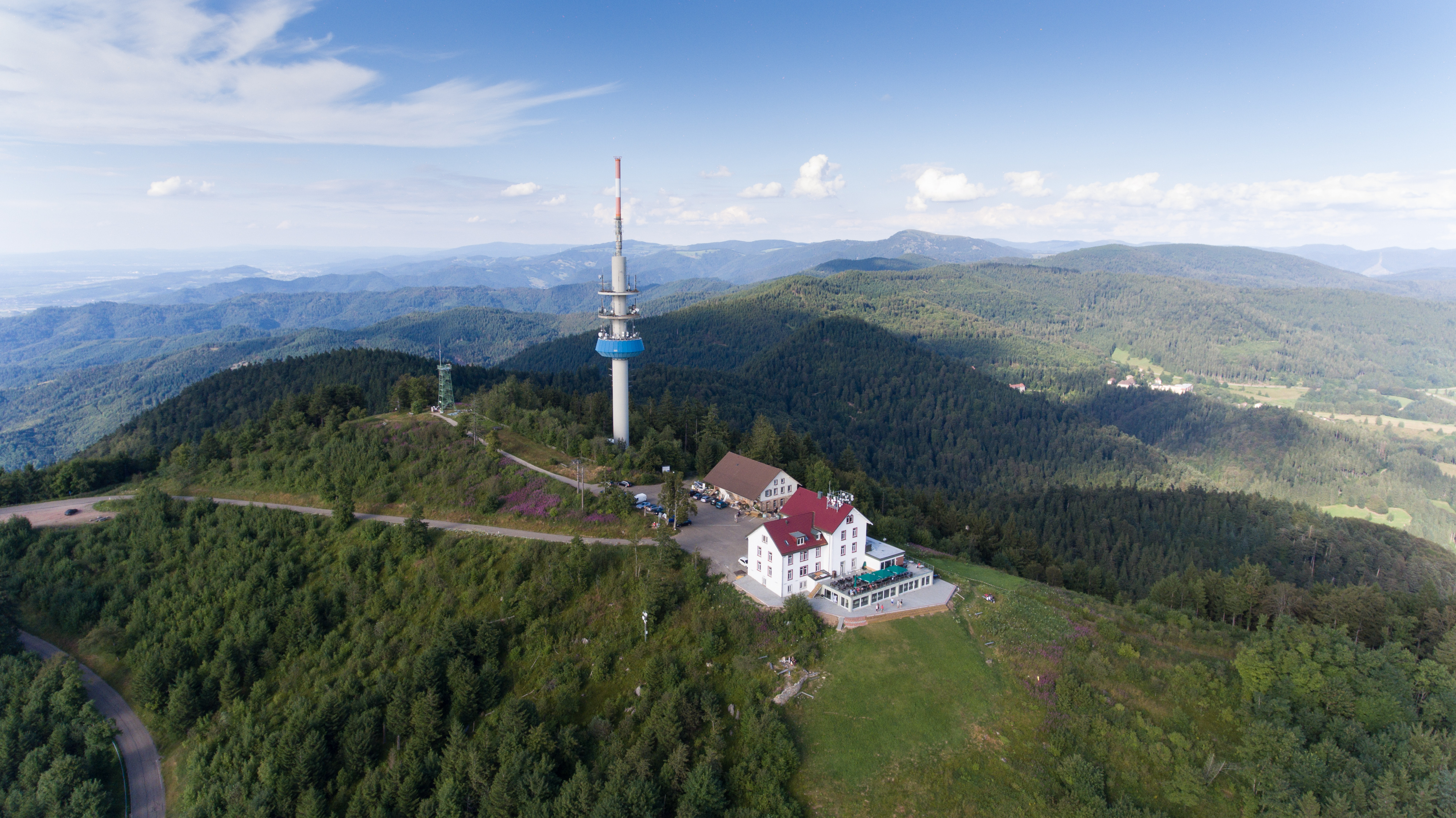 Aerial view summit of Hochblauen